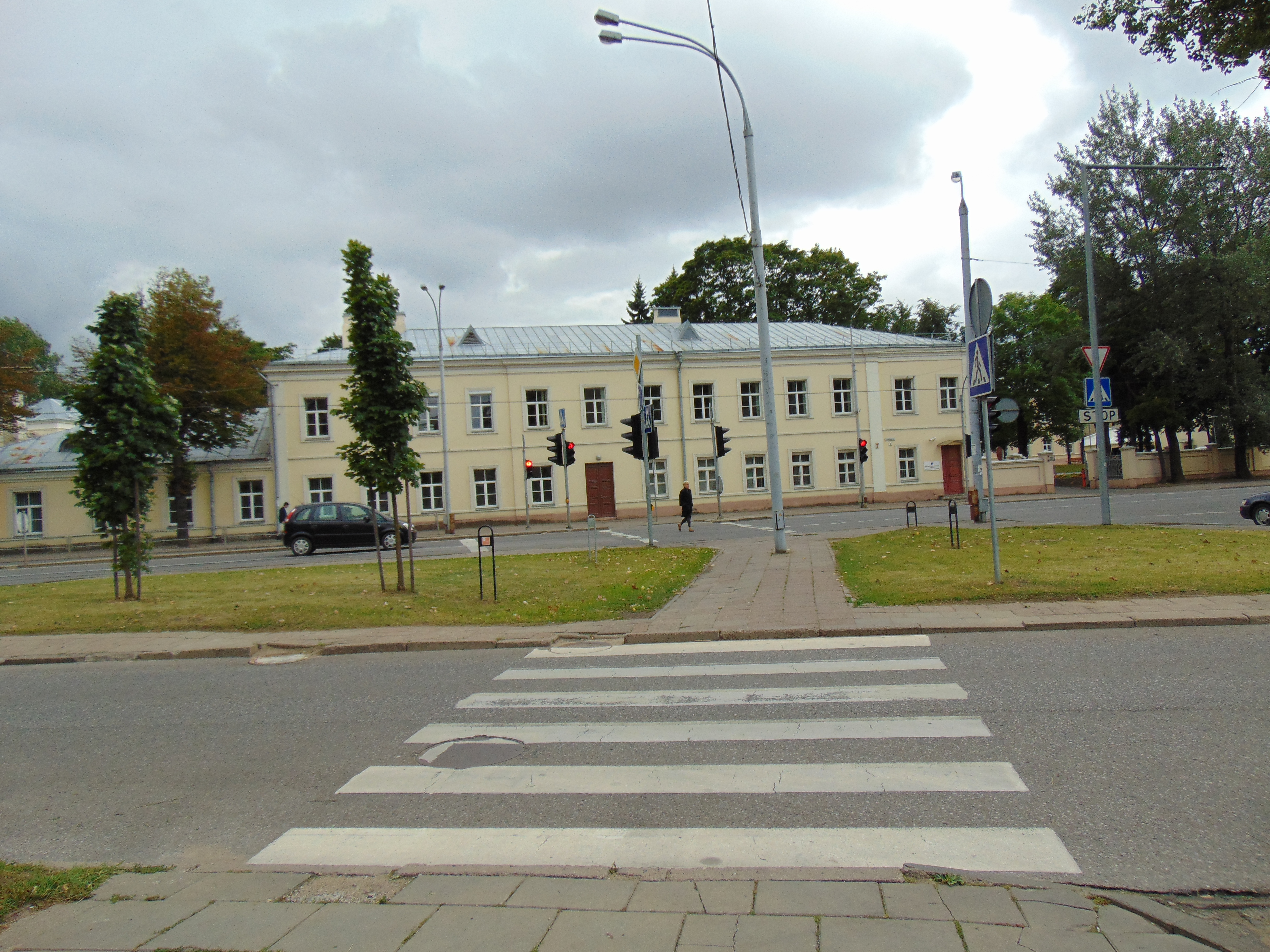 Savanorių Avenue 2